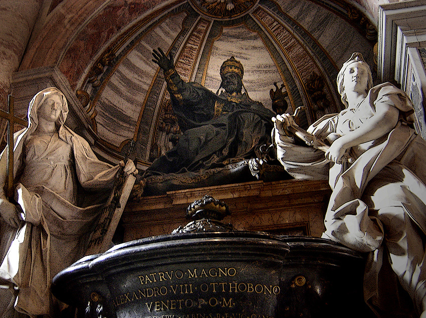 Tomb of Pope Alexander VIII by Bertosi and De Rossi. St. Peter's Basilica